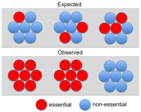 Distribution of essential genes among complexes in S. cerevisiae. Essential genes are shown in red, nonessential in blue. Redrawn after Figure 1 in Ryan et al. 2013